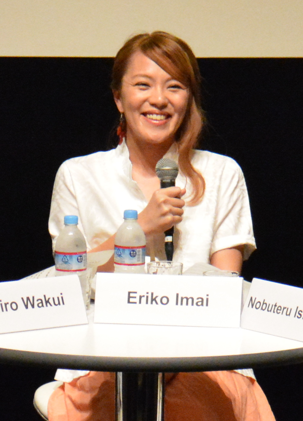 Eriko Imai at the International Conference on Climate Change and Coral Reef Conservation in Okinawa Institute of Science and Technology on 29 June 2013.